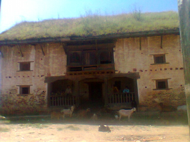 Kajijasapau Thapako Pauwa